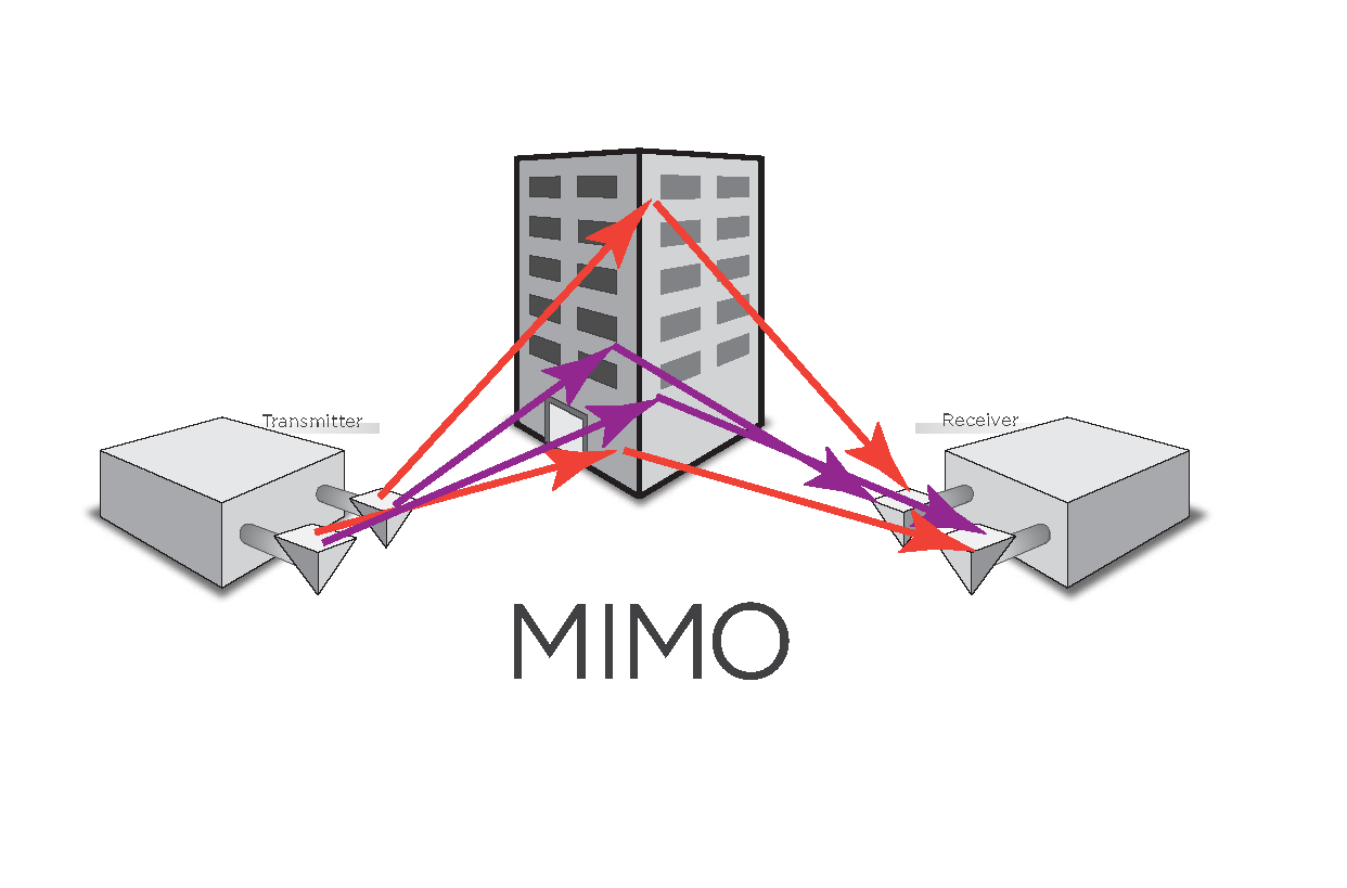 Illustrates the operating principle for MIMO wireless technology: the exploitation of multipath propagation to multiply link capacity